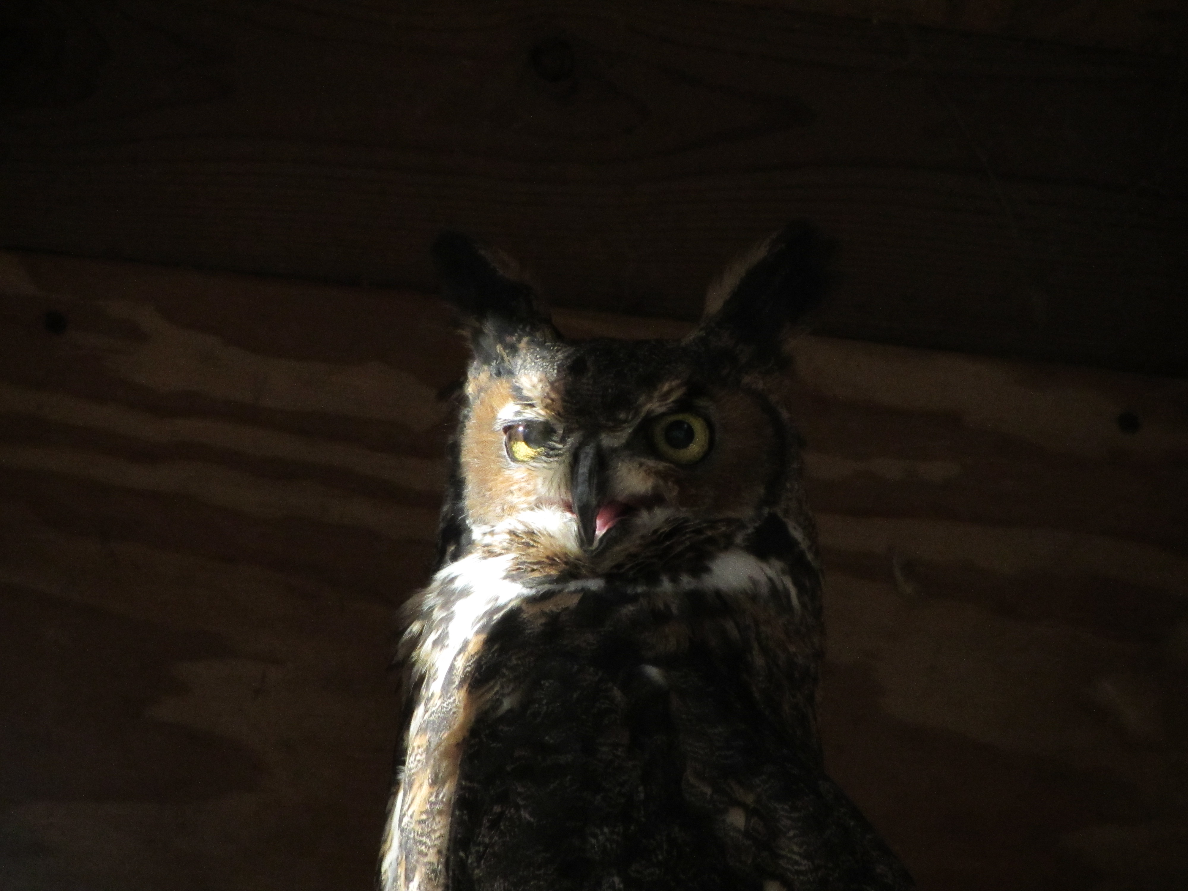 Great Horned Owl, Long Branch Nature Center, Glencarlyn, Arlington, Virginia